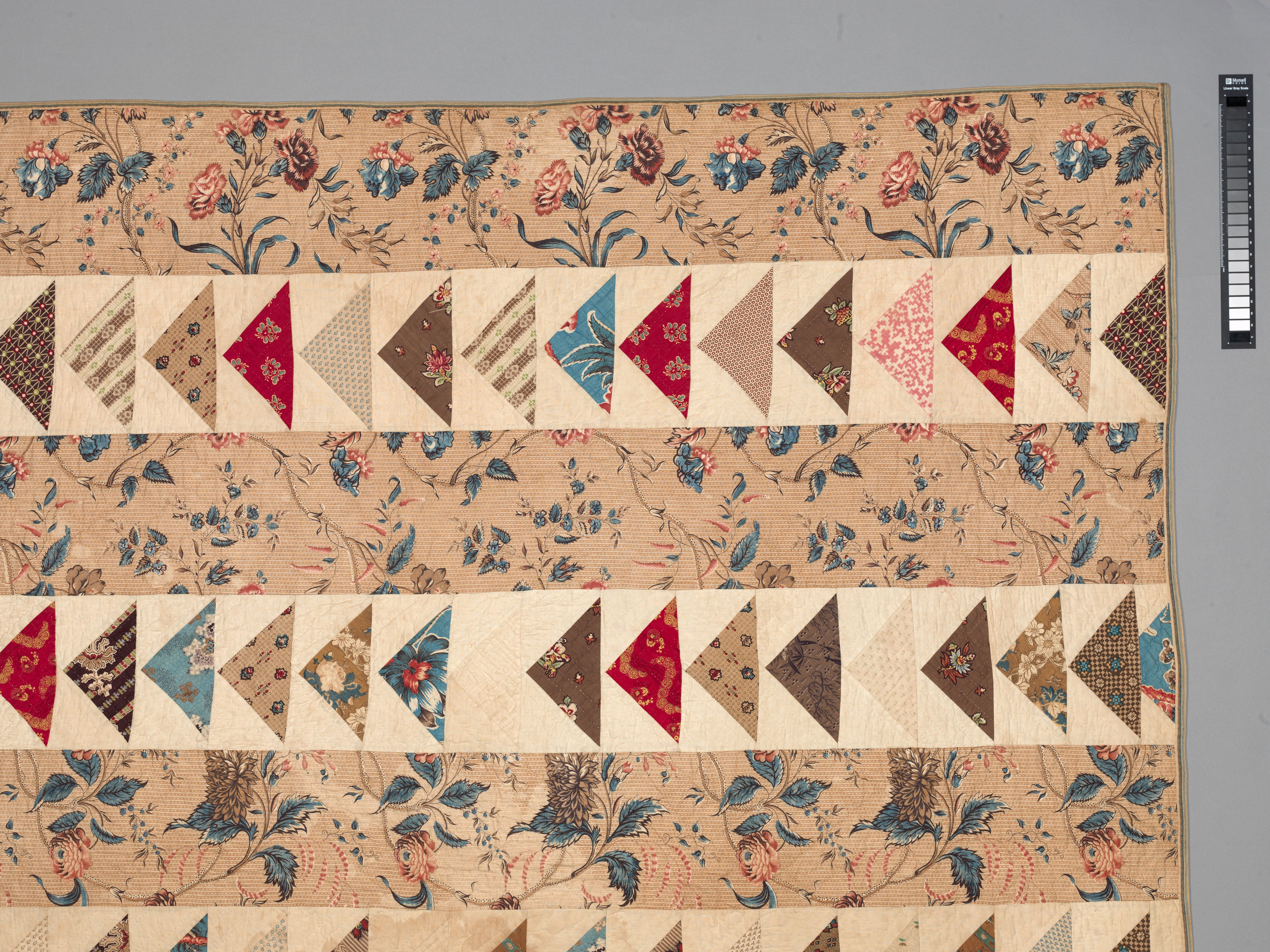 American; Quilt; Textiles